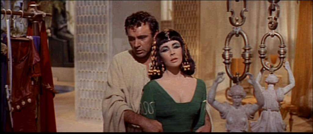 Cropped screenshot of Richard Burton and Elizabeth Taylor from the trailer for the film Cleopatra.